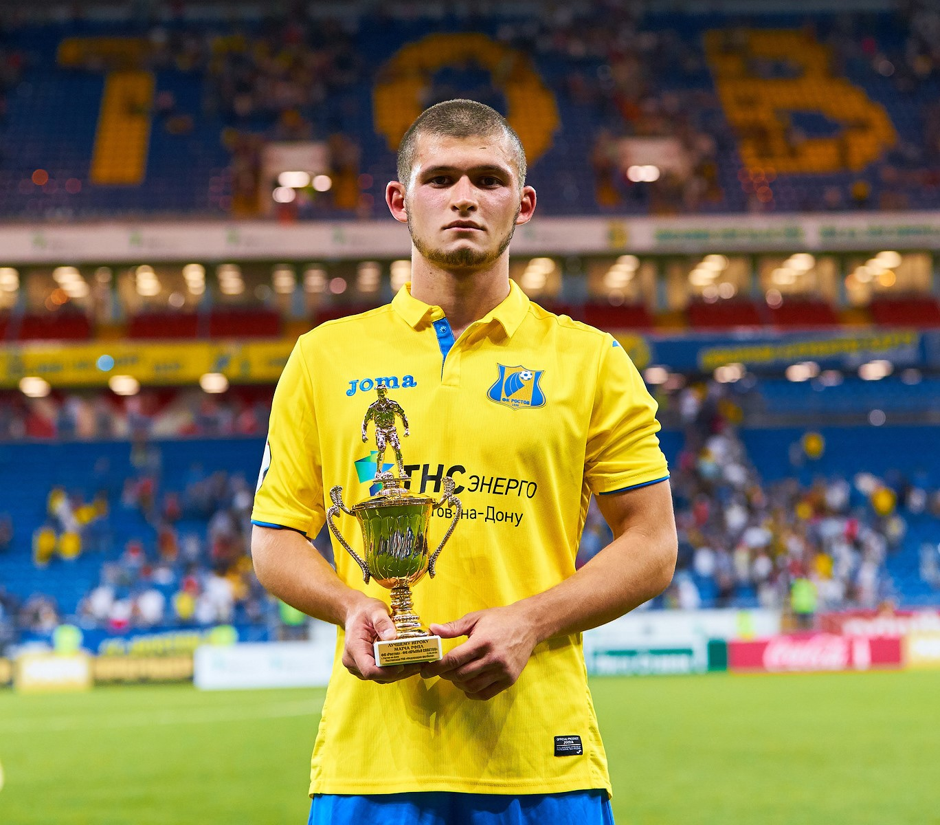 Ayaz Guliyev